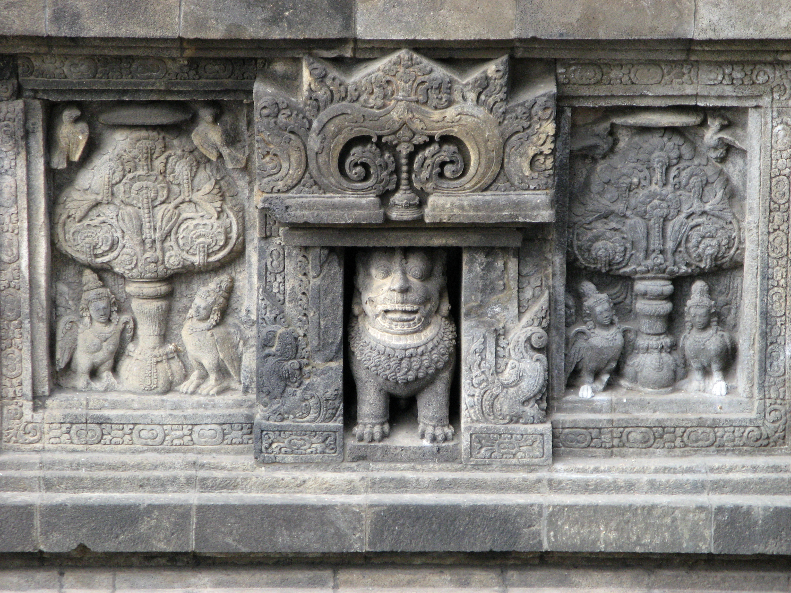 These finely-executed Kinnara reliefs can be compared to the equally artistic Kinnara reliefs that decorate the band of Candi Vishnu. The central lion, inserted between every pair of reliefs and framed by elaborate carving, is a new element in the Candi Shiva panels. The vases of the Candi Shiva bouquets (between the Kinnaras) are also more elaborately decorated, with chains of jewels that drape their bulbous bases.